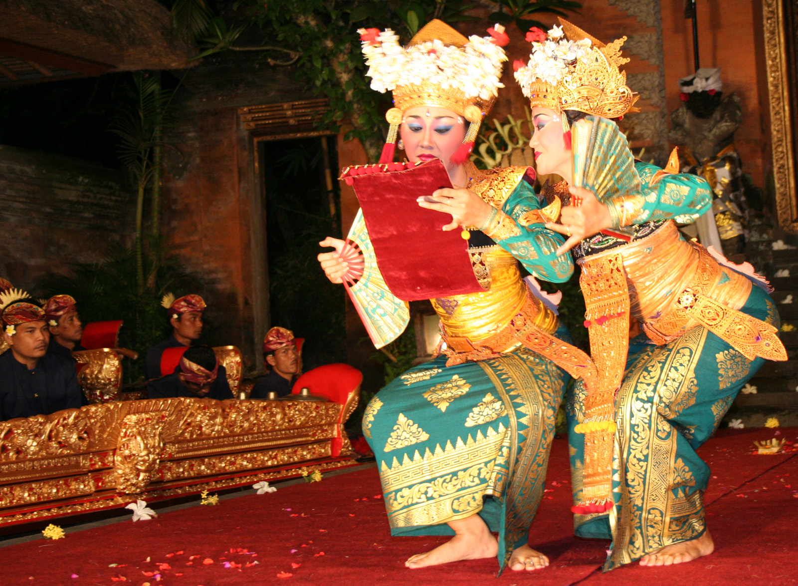 Scene from the Legong Kraton (Legong of the Palace) in the palace of Ubud, Bali, Indonesia. The king and the princess bid farewell to each other. In the background, the Gamelan orchestra accompanies the performance.